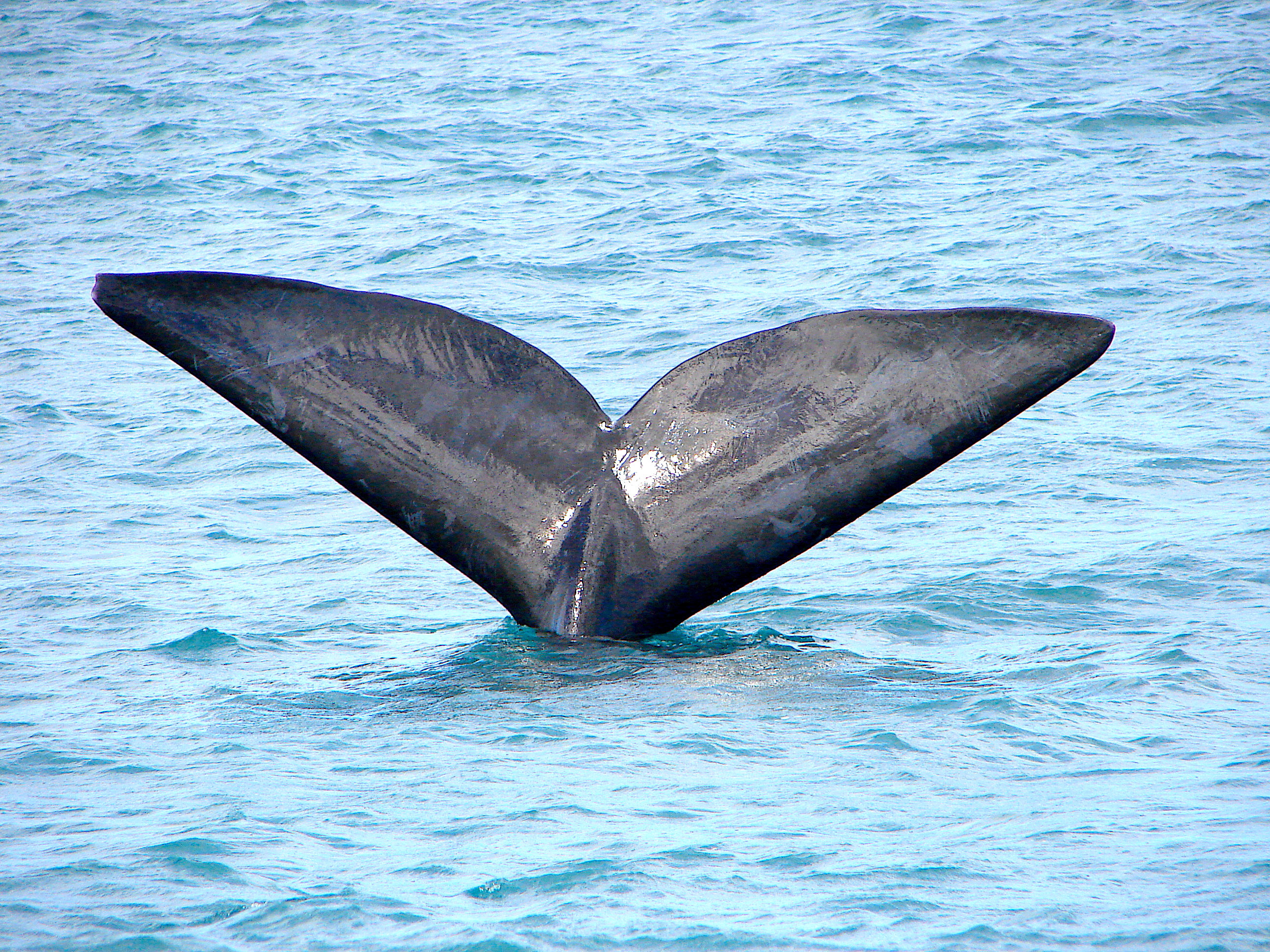 Southern Right Whale near Hermanus in South Africa (2013)